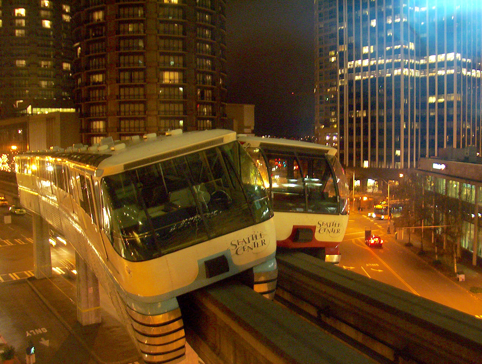 Collision of the two trains of Seattle Center Monorail in November 2005, as seen from the Westlake Center food court. In 1988, the space between the monorail tracks had been reduced at the southern end of the line to make room for the new Westlake Center. The train on the right was approaching the station, and should have yielded.